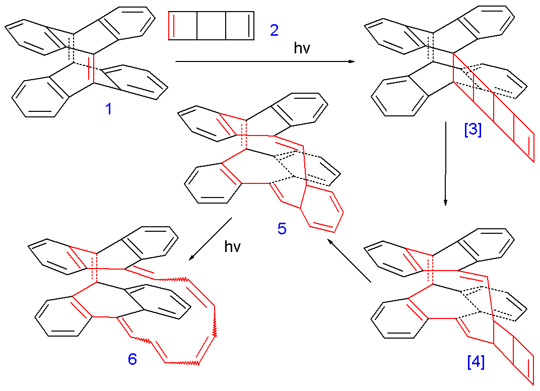 Mobius Aromaticity